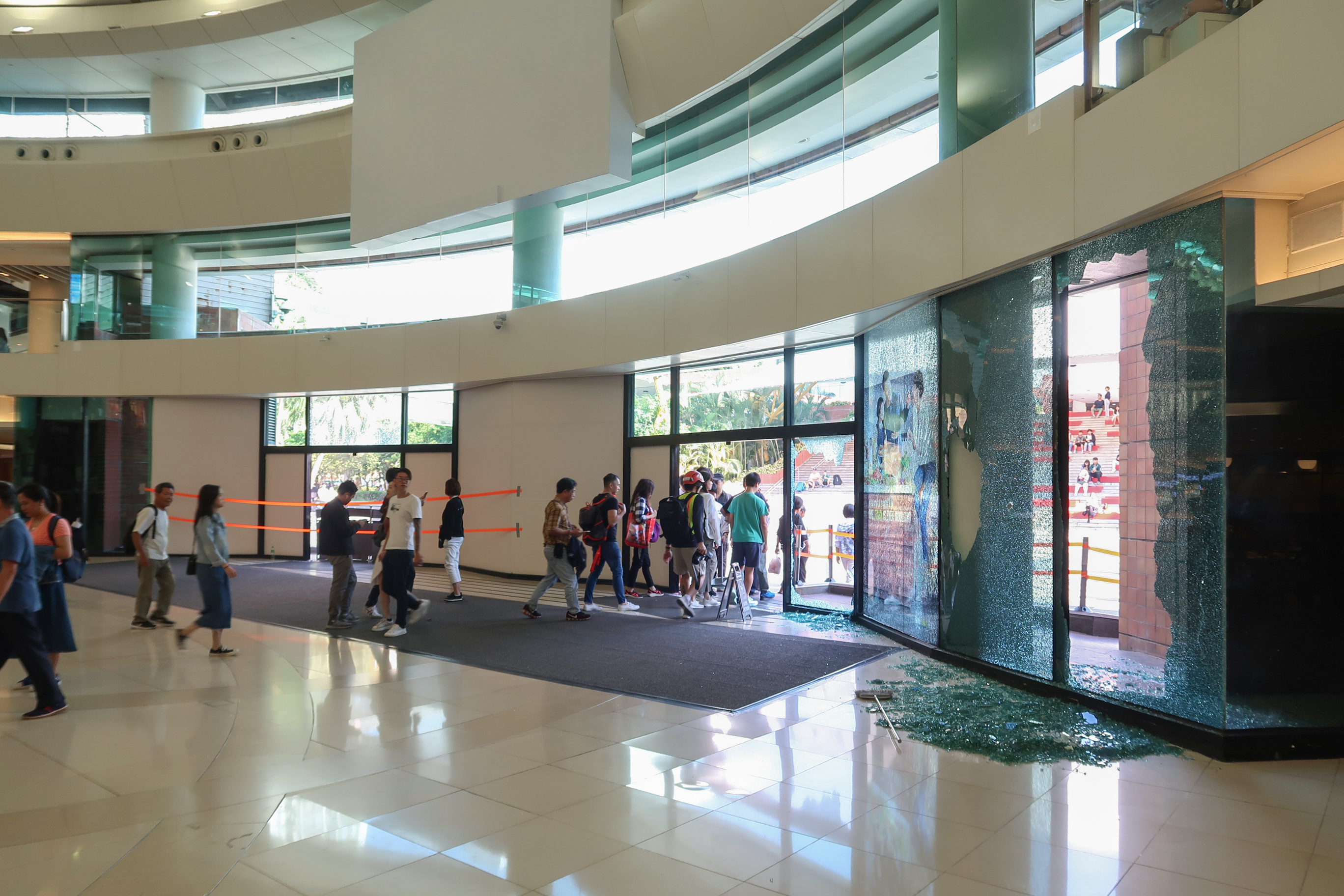 New Town Plaza Entrance Arena glass broken